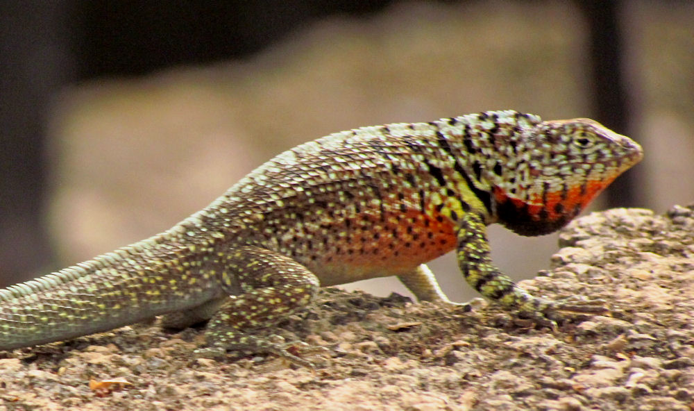 Santa Cruz Lava Lizard (Microlophus indefatigabilis), male, Santa Cruz Island, Ecuador